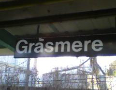 Image of the Grasmere sign at the Grasmere station on the Staten Island Railway